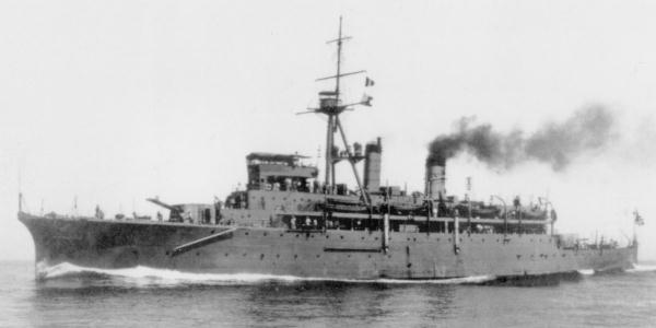 IJN Jingei.